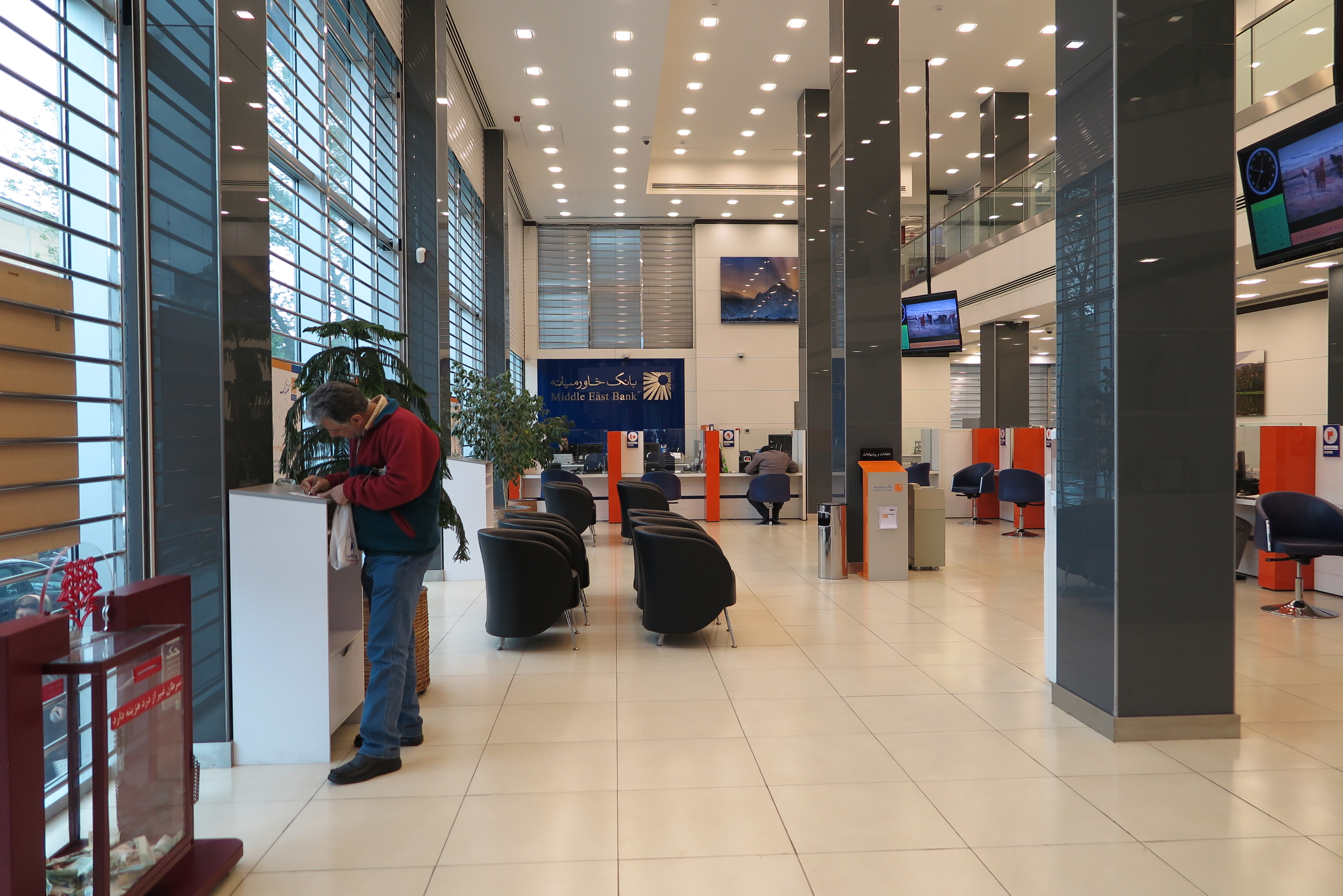 middle east bank (iran). central branch